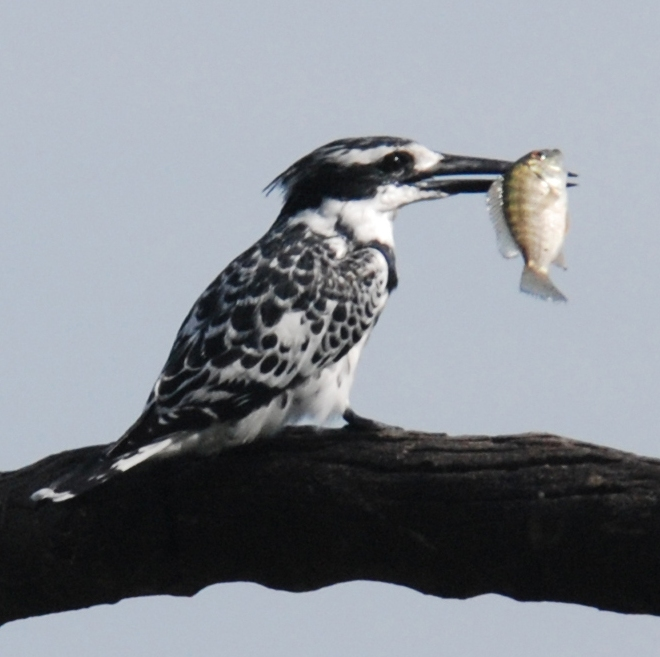 Pied Kingfisher (Ceryle rudis) whacking the heck out of this fish on the tree limb until it died and he swallowed it whole. Botwana, November 2007.